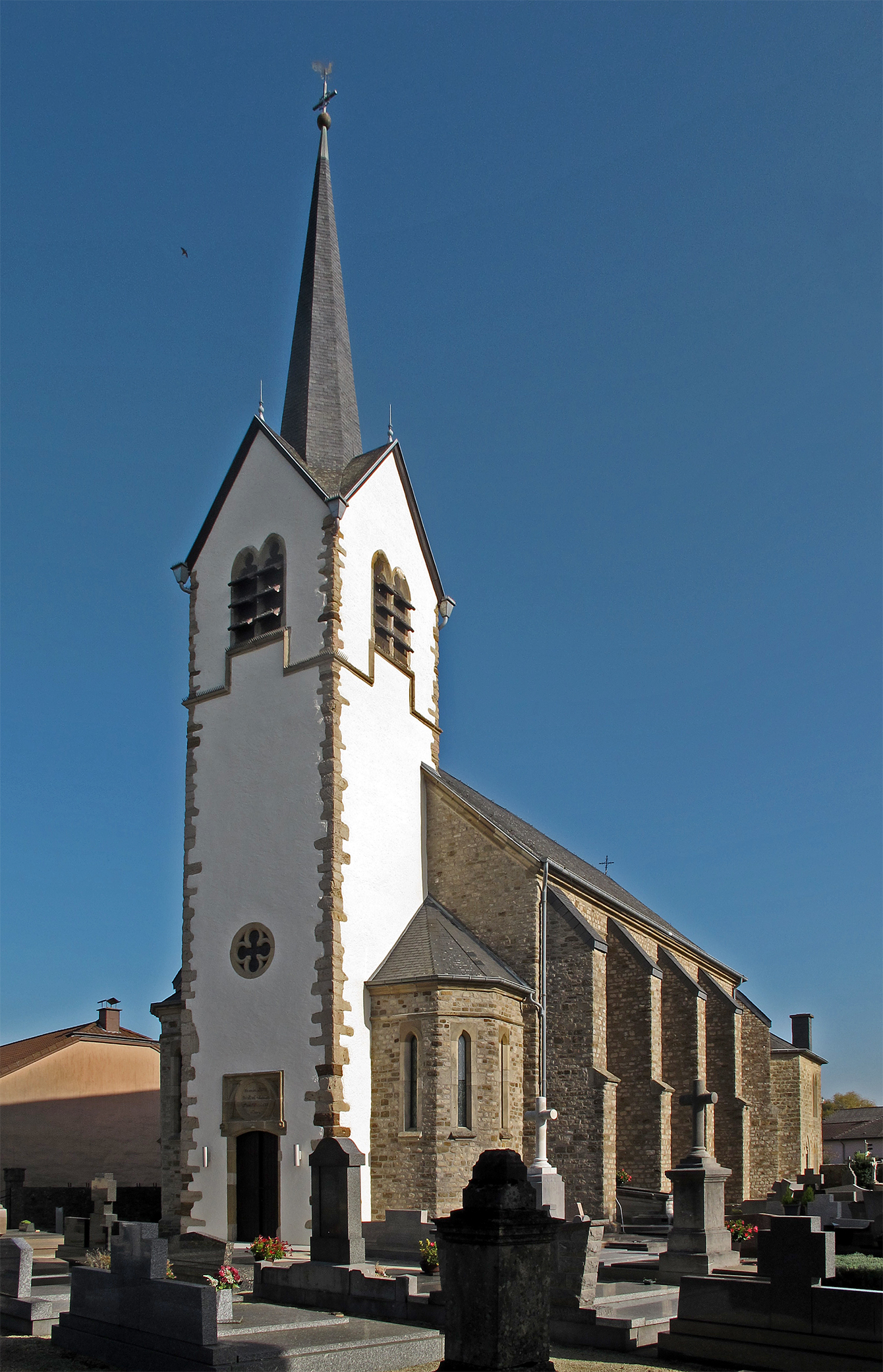 Church of Elvange, Luxembourg